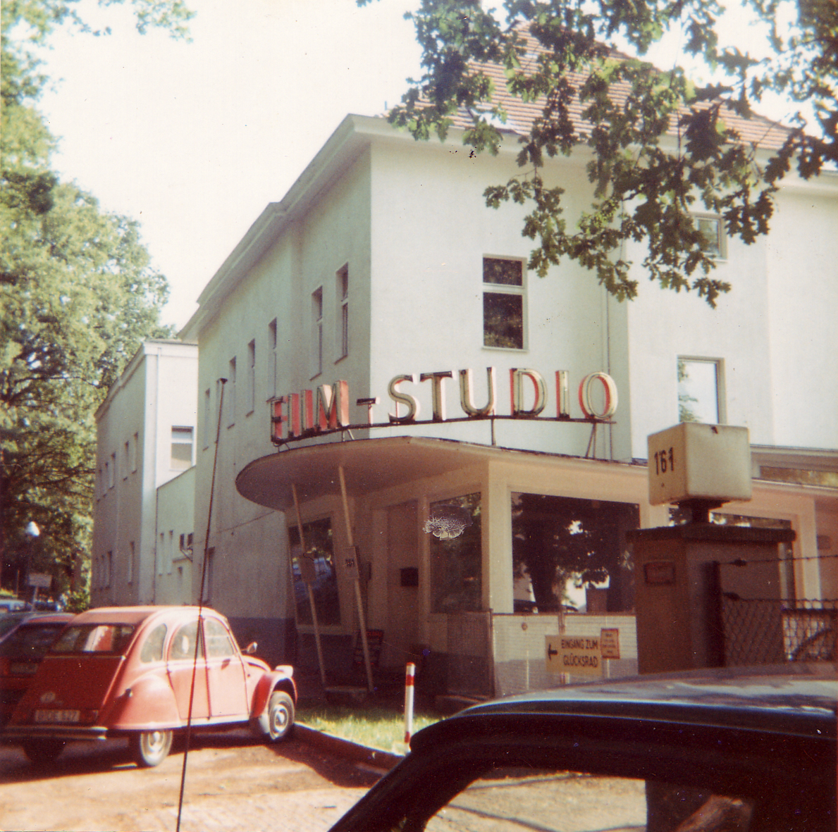 Film Studio Havelchaussee, Berlin, Germany